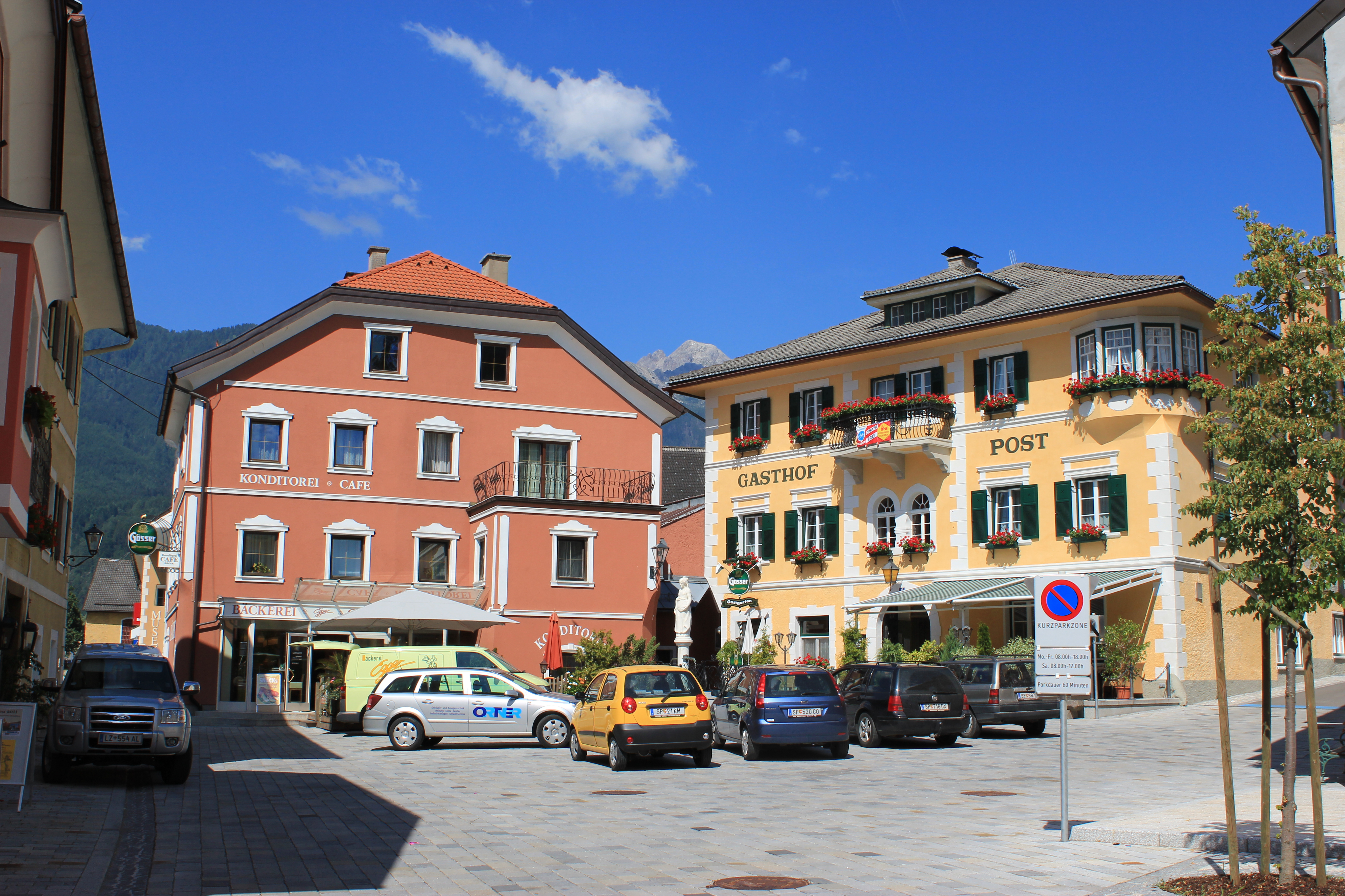 Marktplatz in Oberdrauburg